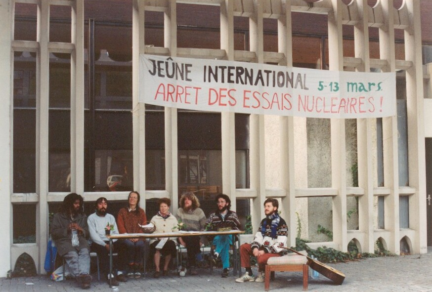 International fast against nuclear tests, March 1990, Grenoble, France.